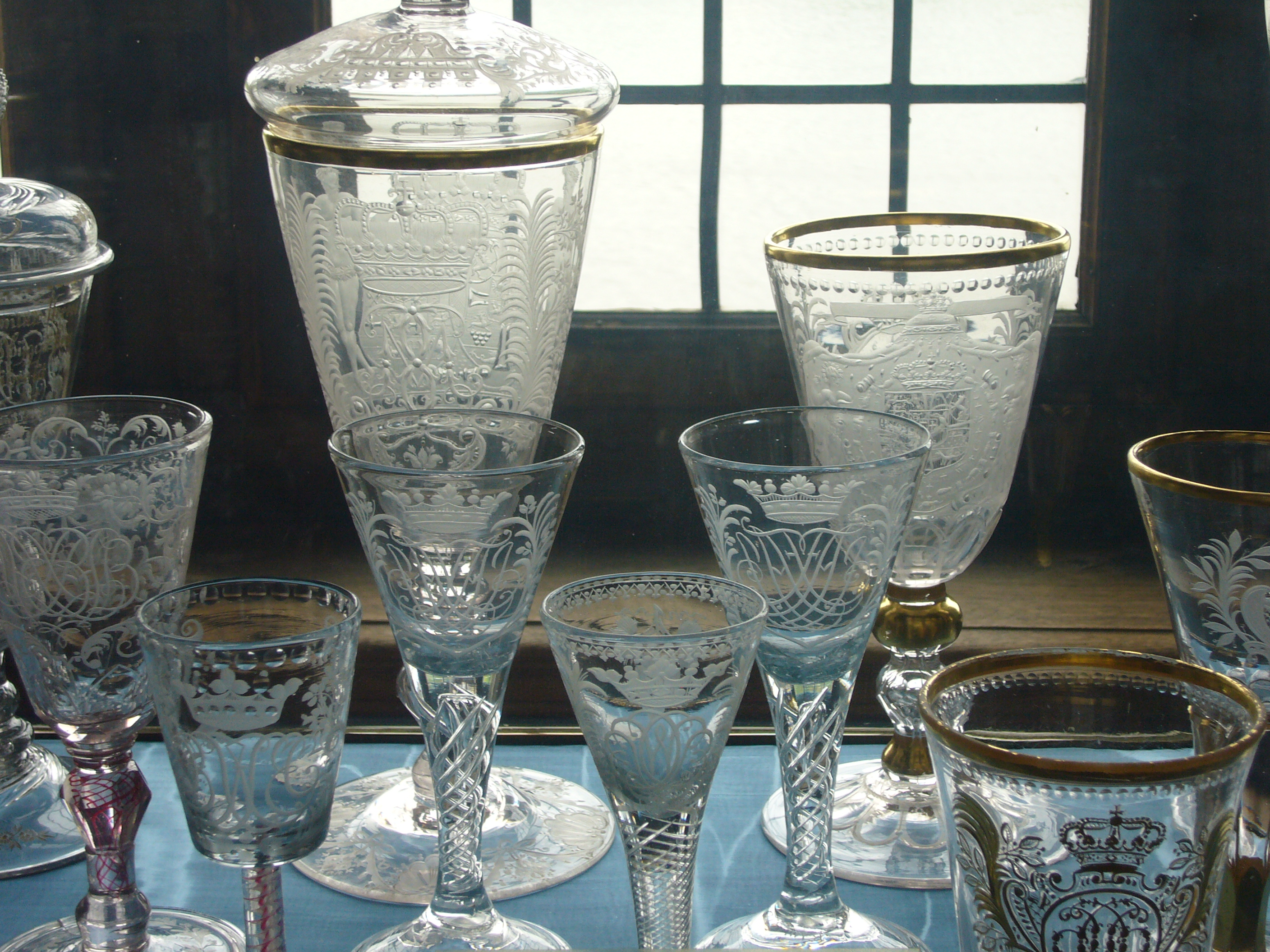 Beautiful crystal at Frederiksborg Slot. A large number of Flora Danica pieces were on display there as well.